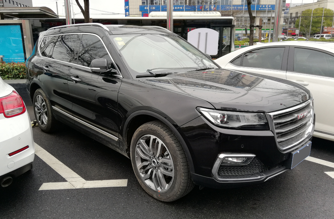 Haval H7L Red photographed in Shanghai, China.